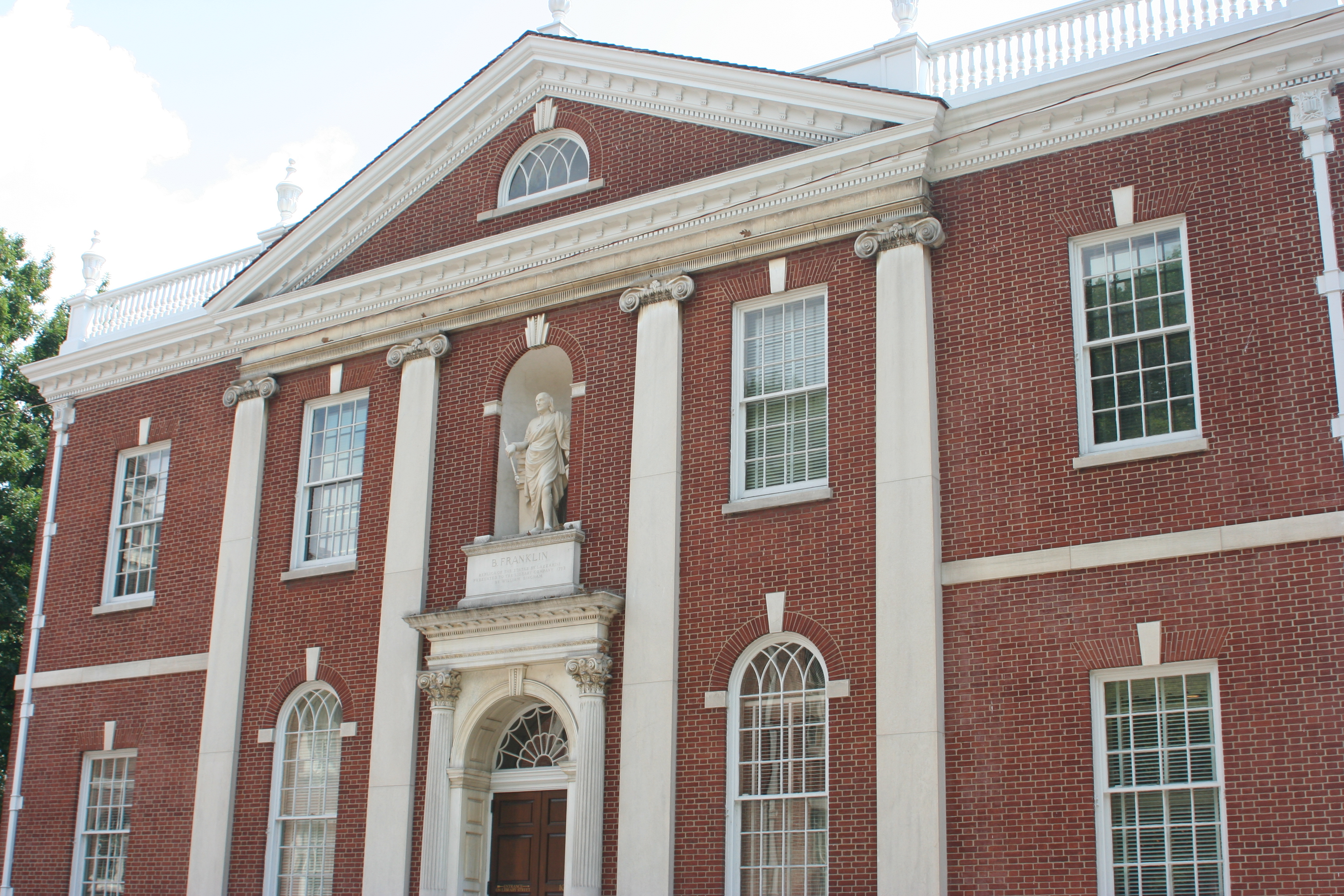 West side of the (reconstructed) Library Company of Philadelphia building